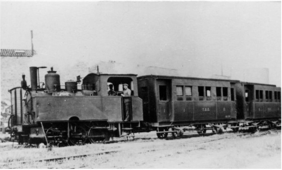 Tramway de Bordeaux à Cadillac